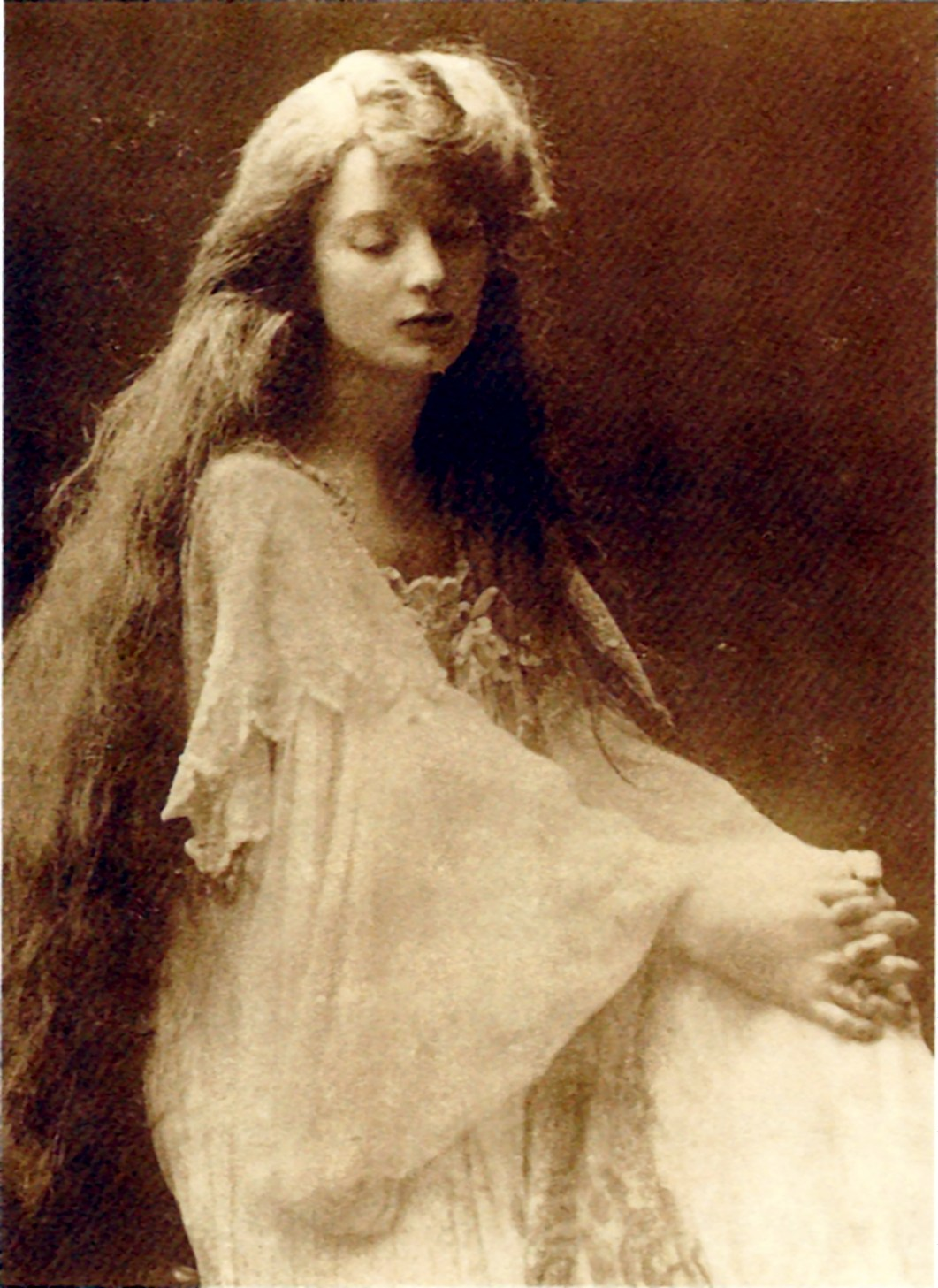 Portrait photo of Eva Palmer-Sikelianos